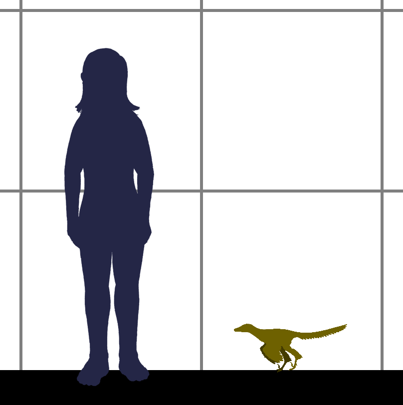 Size of the birdlike deinonychosaur Xiaotingia, compared to a human.